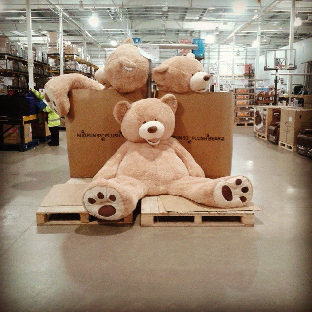 Massive 93 inch teddy bear now in #Costco #leckwith !!!